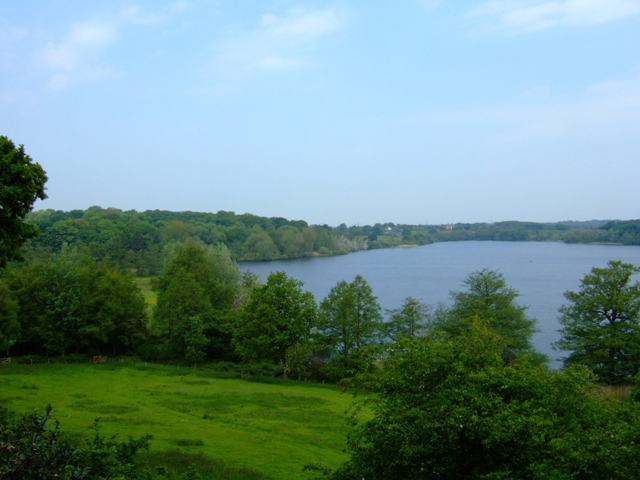 Rostherne Mere National Nature Reserve The reserve is a mere with adjacent ancient semi-natural woodland. Access is by permit only.